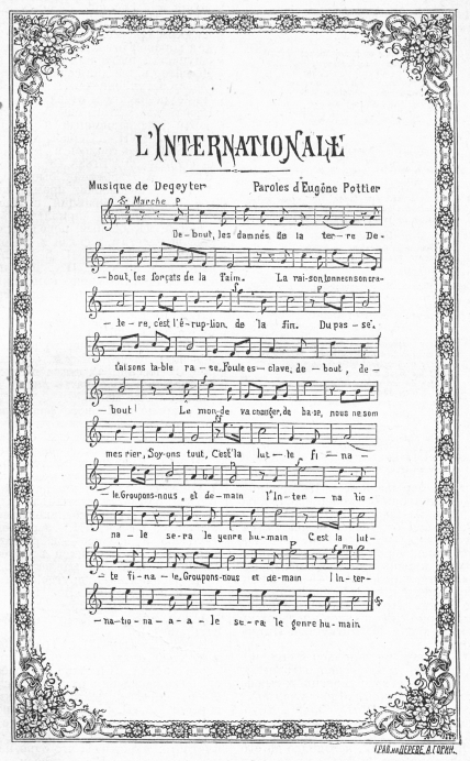 First publication of The Internationale (composed by Pierre Degeyter from Ghent, Belgium)